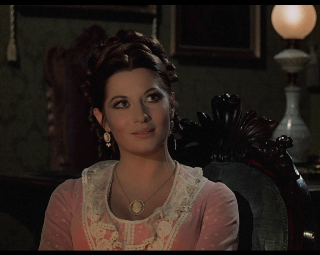 Rosalba Neri in a scene from the cult horror film, Lady Frankenstein (1971)